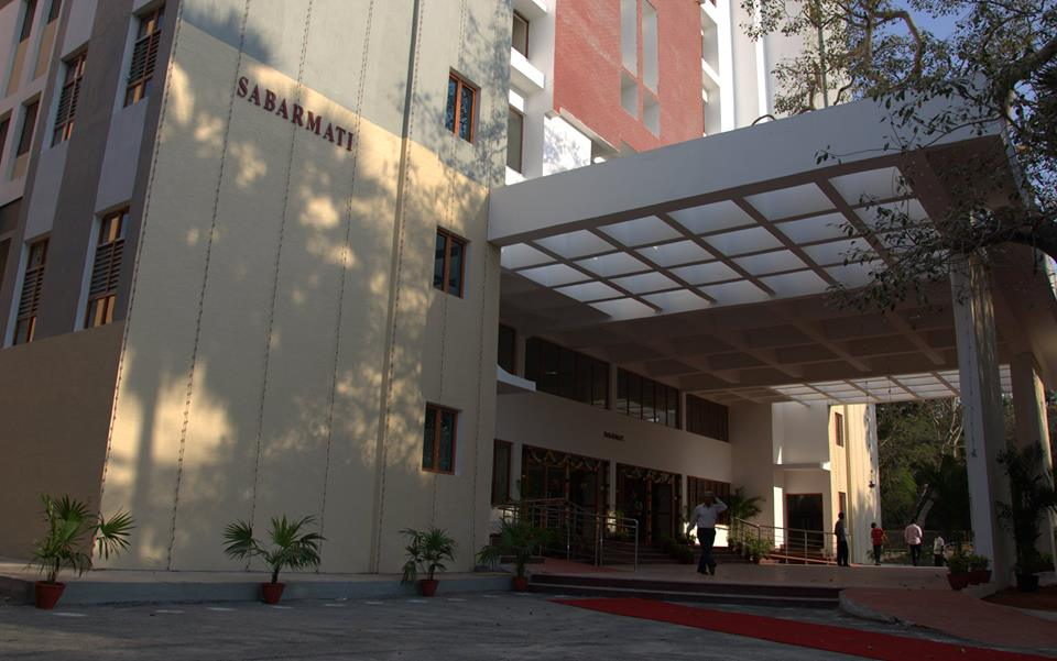 Entrance View of Newly opened Sabarmathi Hostel